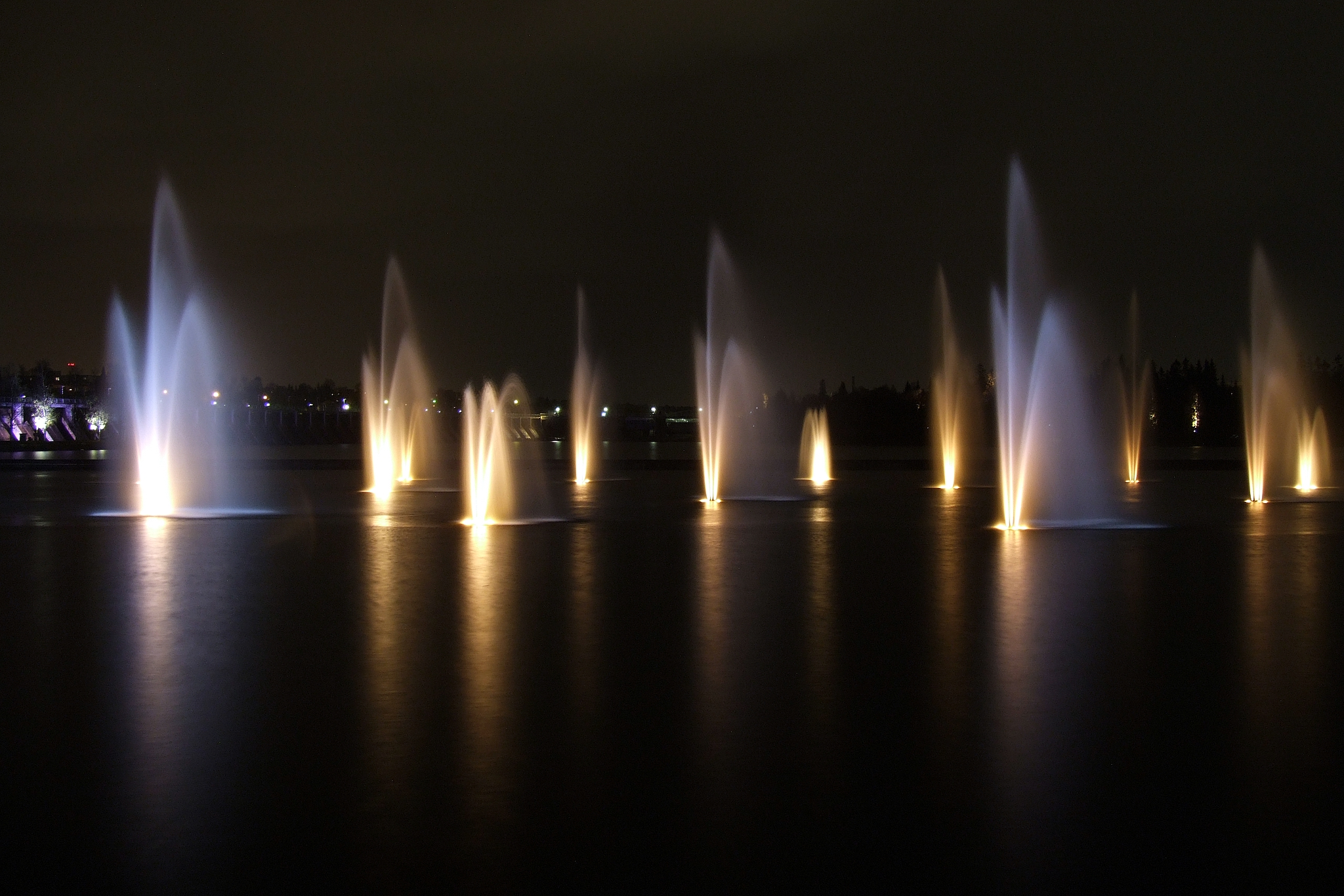 The fountains in Oulu river delta at night, Finland.